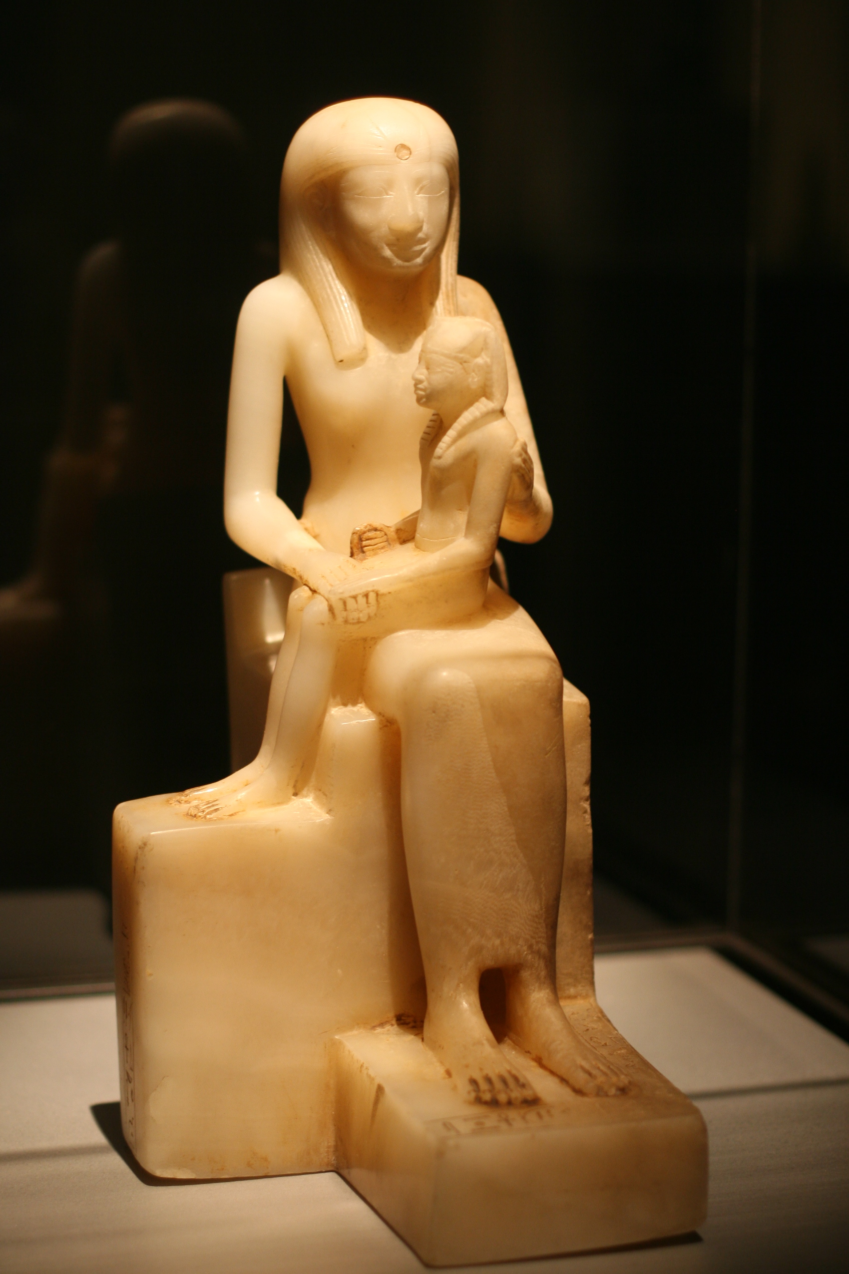 Statuette of Queen Ankhnes-meryre II and her Son, Pepy II, ca. 2288-2224 or 2194 B.C.E. Egyptian alabaster, 15 7/16 x 9 13/16in. (39.2 x 24.9cm). Brooklyn Museum, Charles Edwin Wilbour Fund, 39.119.